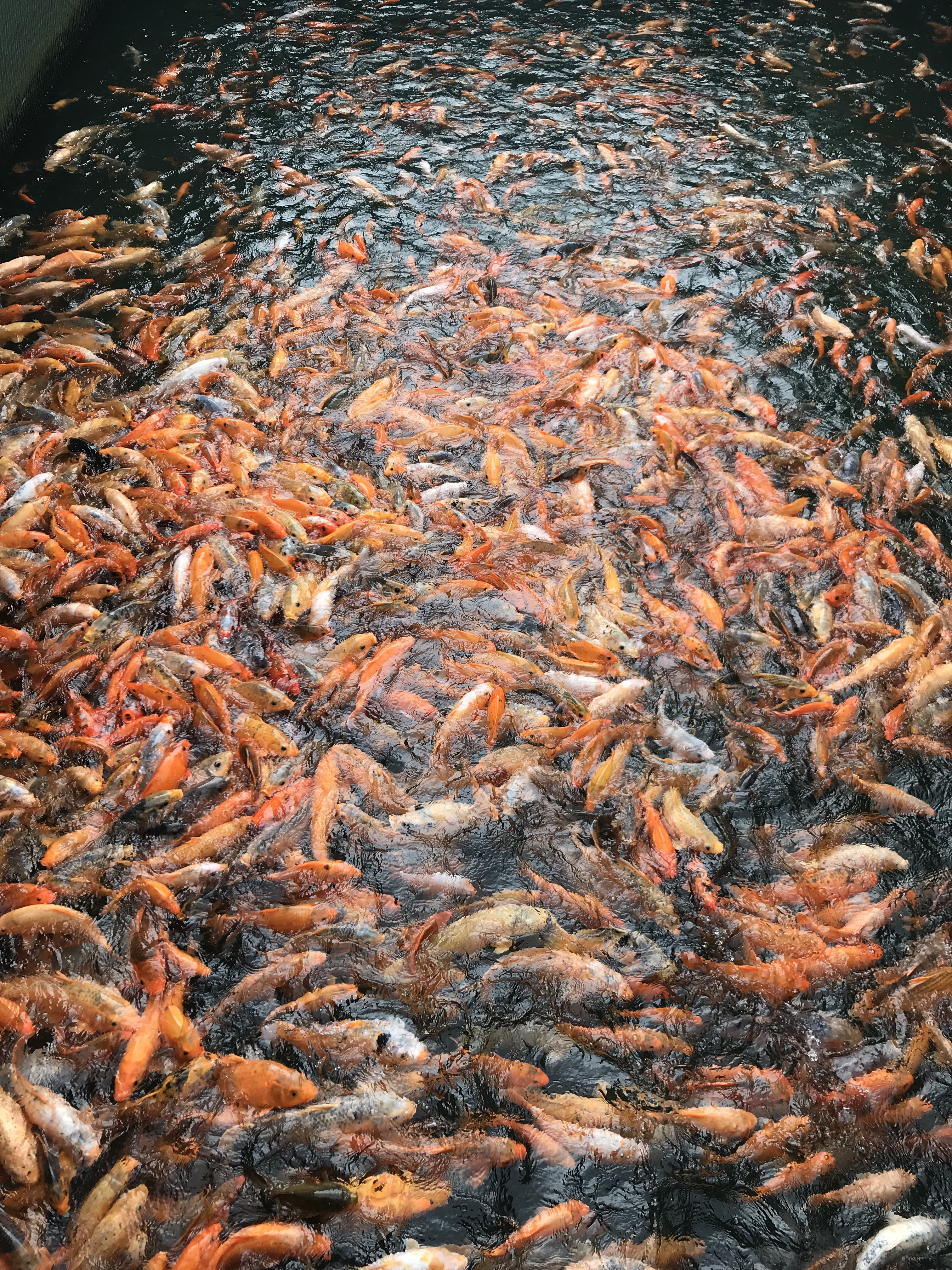 Unbelievable